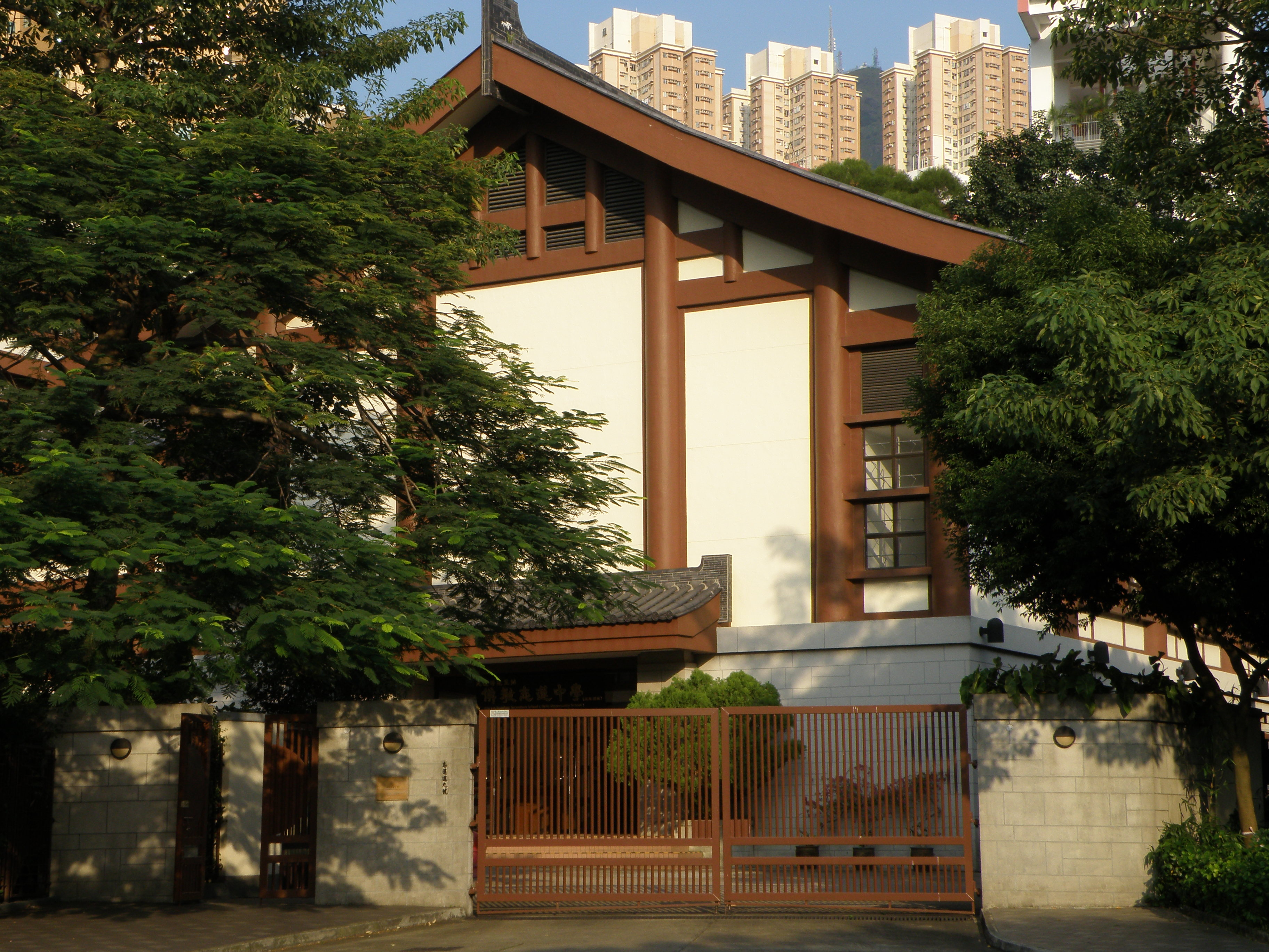 Chi Lin Buddhist Secondary School in Diamond Hill, Hong Kong.